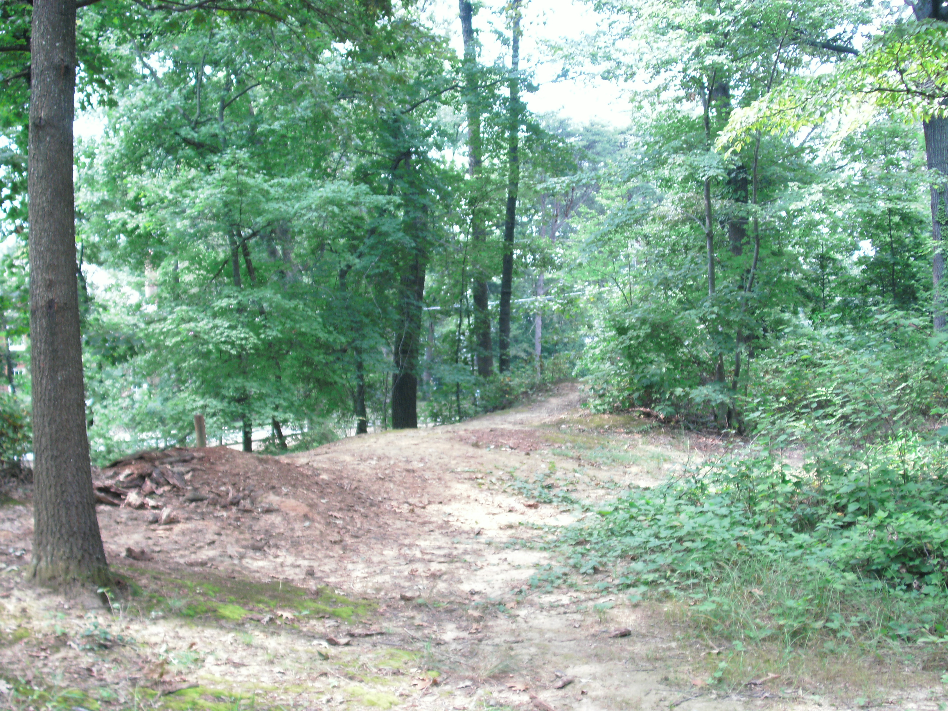 Fairfax County, VA GEDSC DIGITAL CAMERA